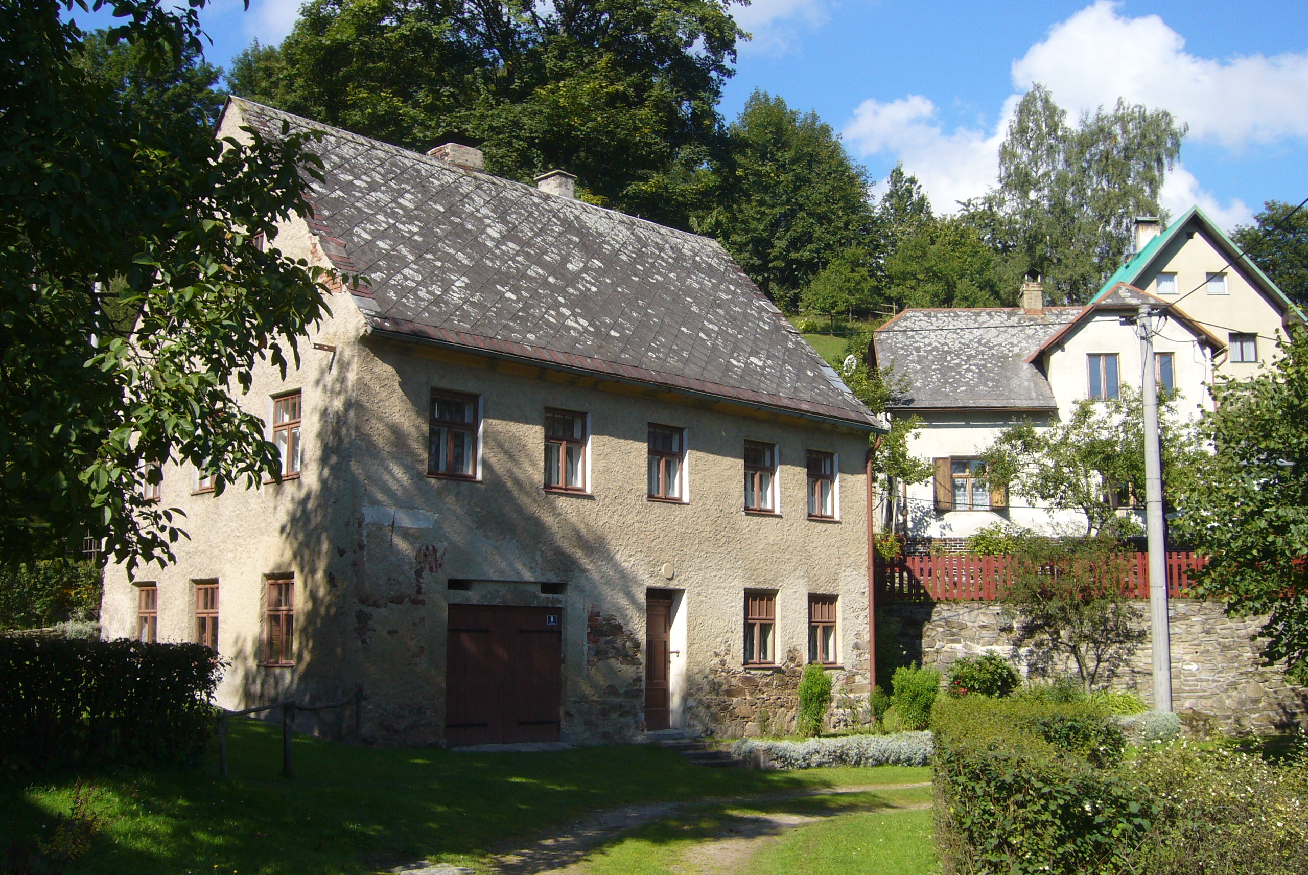 Ondřejov - former pub